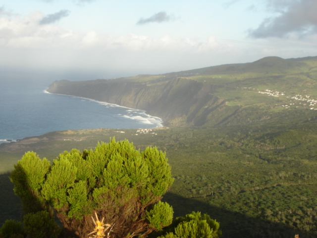 The northern coast of the island of Faial, showing the parish of Praia do Norte, as seen from Cabeço Verde